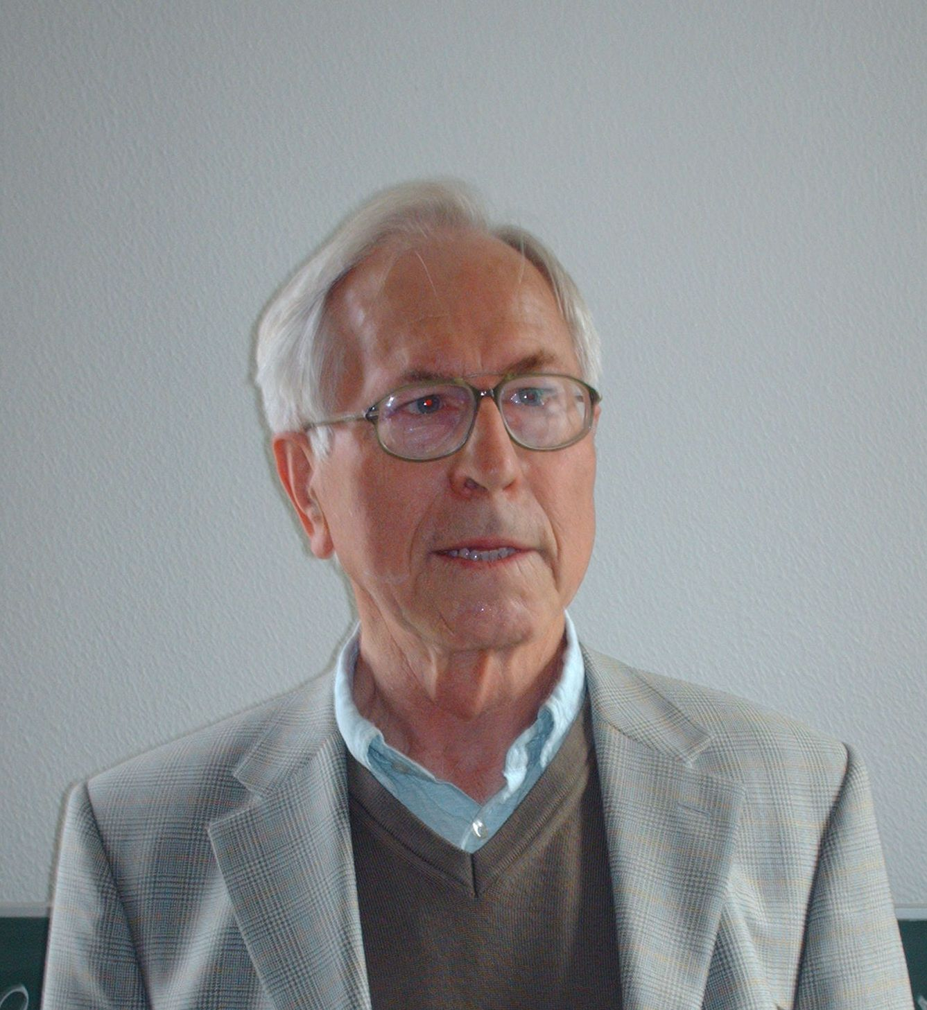 Gerhard Augst check usage